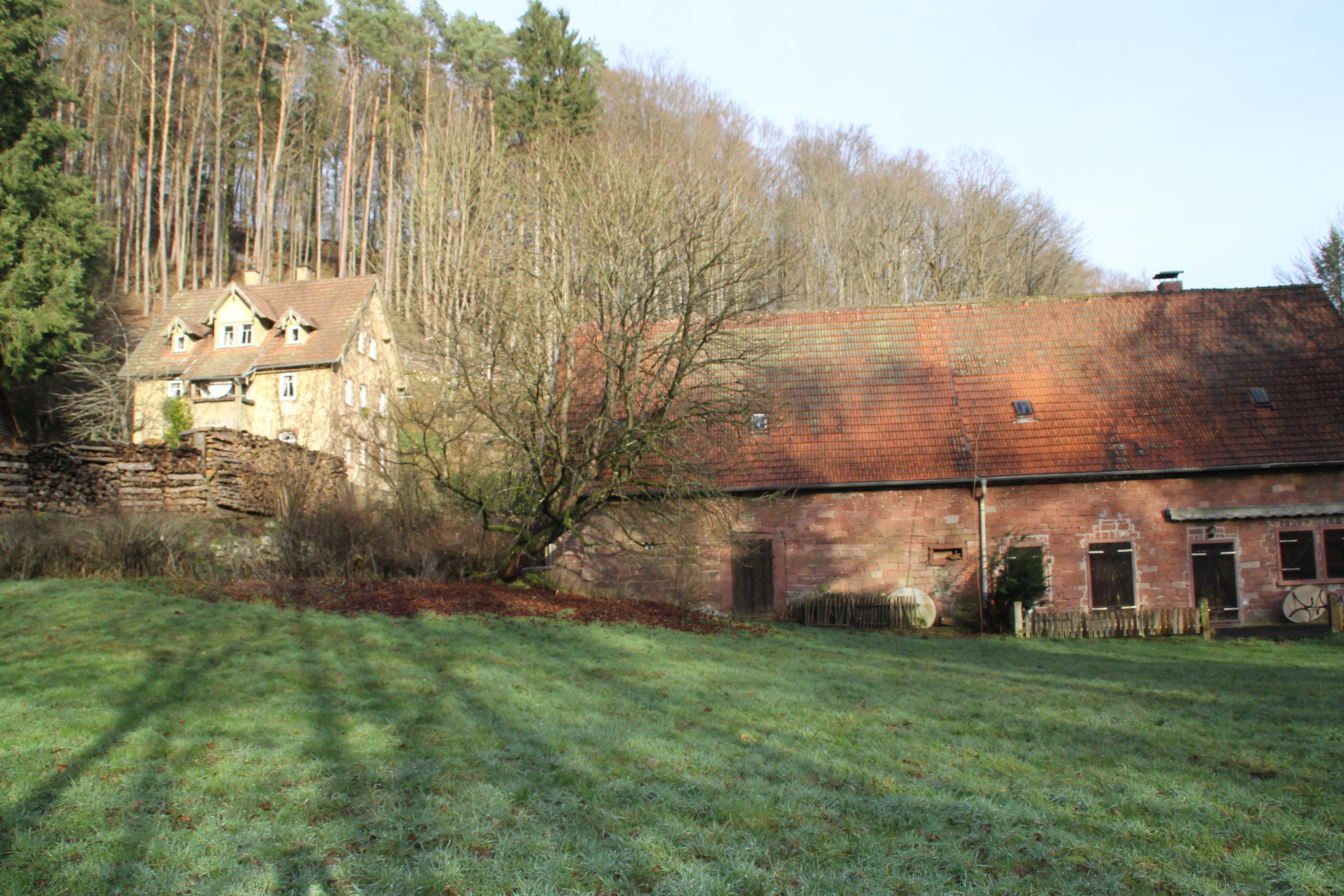 The Neue Wachenmühle near Esselbach in the Landkreis Main-Spessart, Bavaria